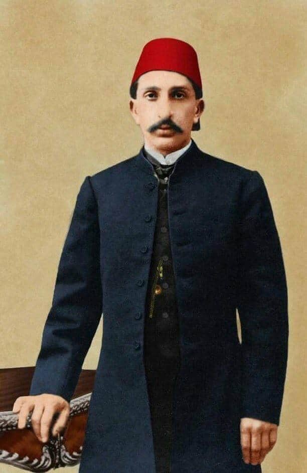 A coloured photograph of Ottoman Sultan Abdul Hamid II.